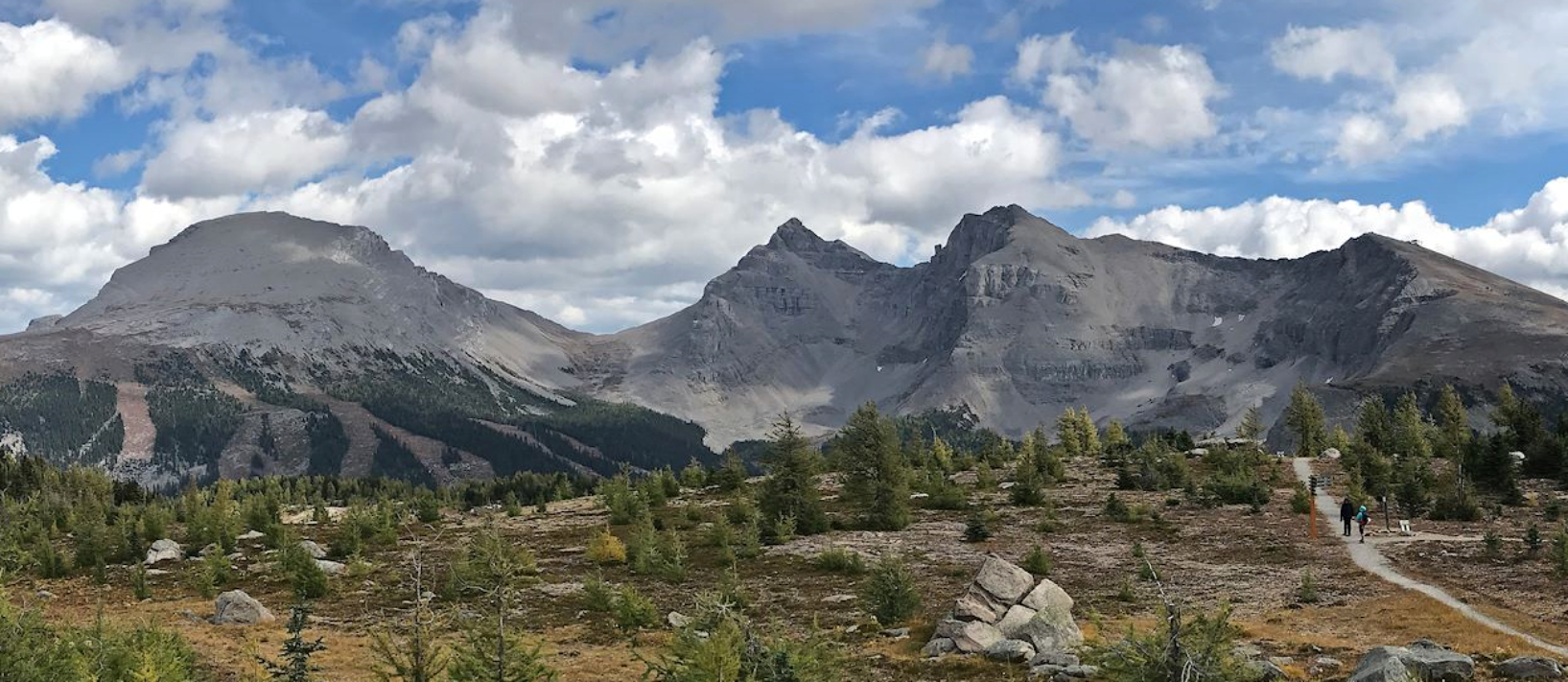 Eagle Mountain and Mount Howard Douglas in Banff National Park, Canada